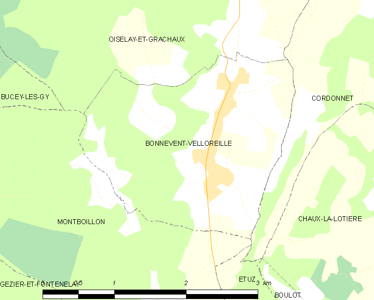 Map of French municipality